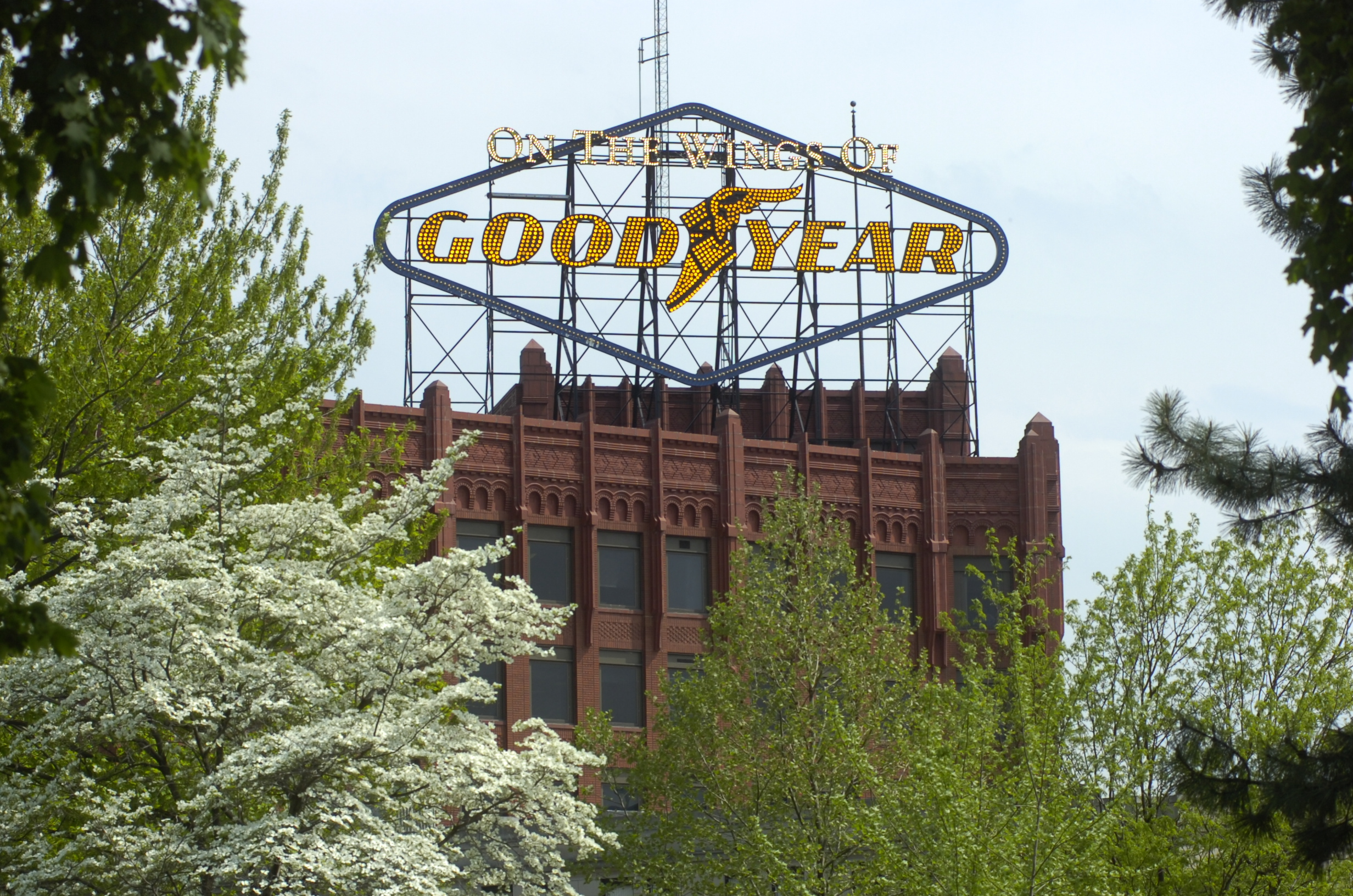 Goodyear factory in Akron.